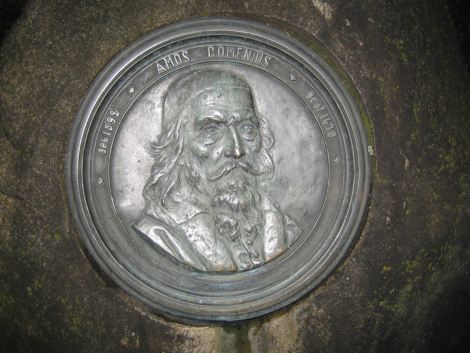 Johann Amos Comenius in Berlin (Germany)